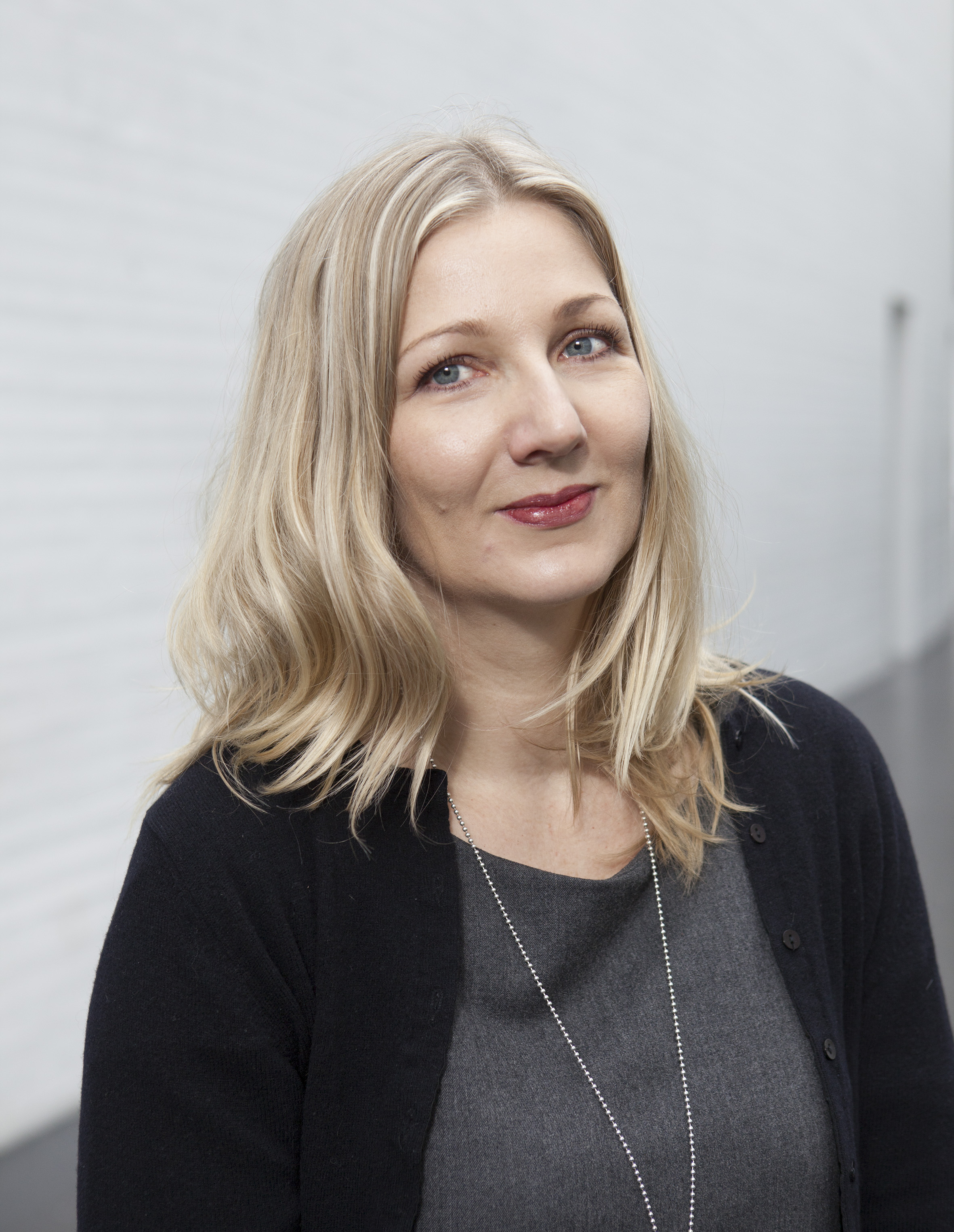 Kiasmassa taiteilija Johanna Lecklin artist in Kiasma photo: Kansallisgalleria / Pirje MykkänenFinnish National gallery / Pirje Mykkänen